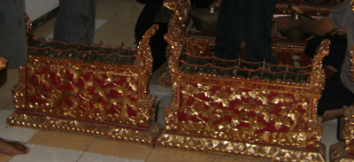 Gamelan Bali